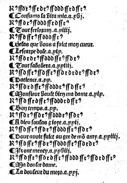 Antonius Arena dance book, basse dance titles and step order